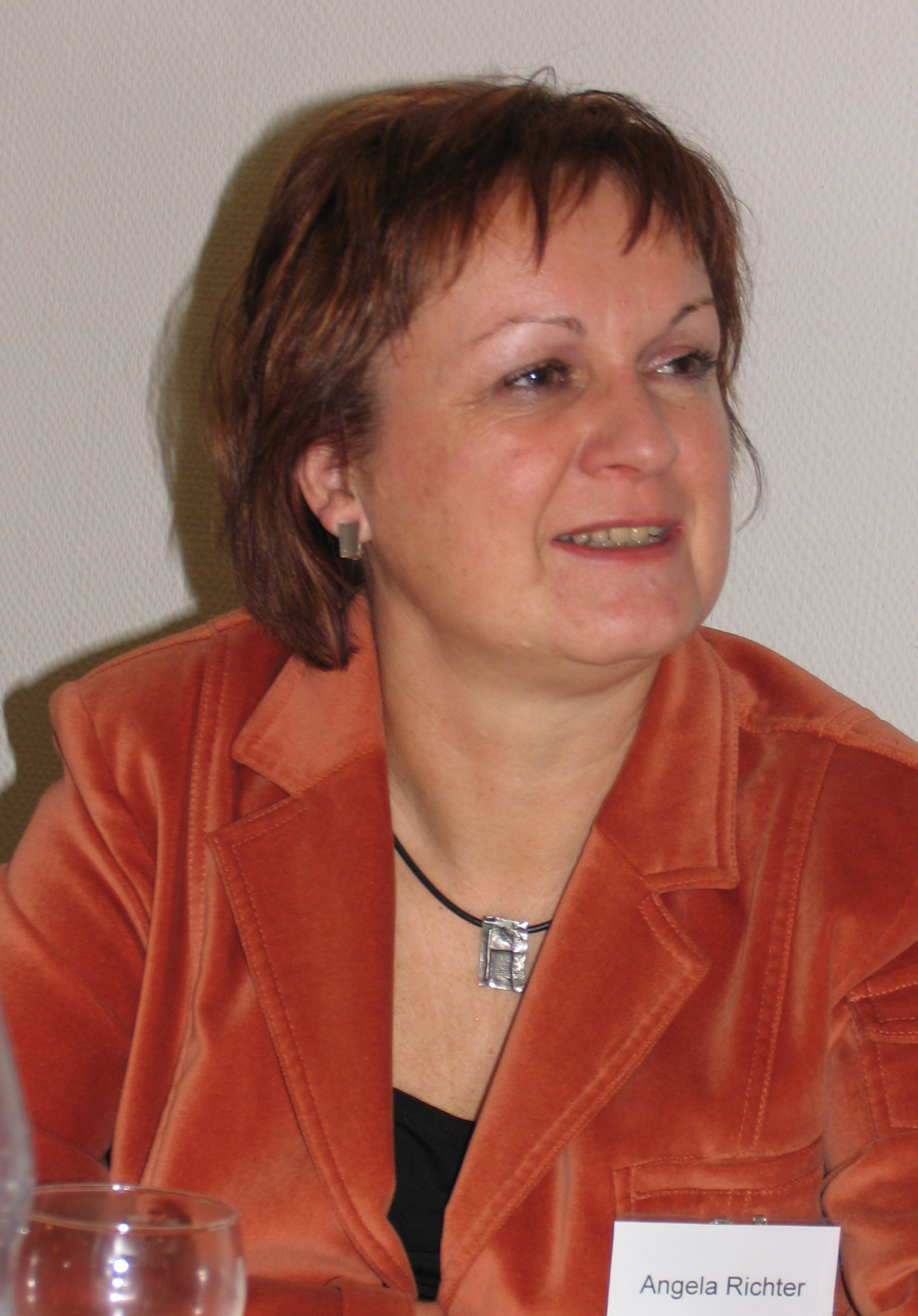 Angela Richter